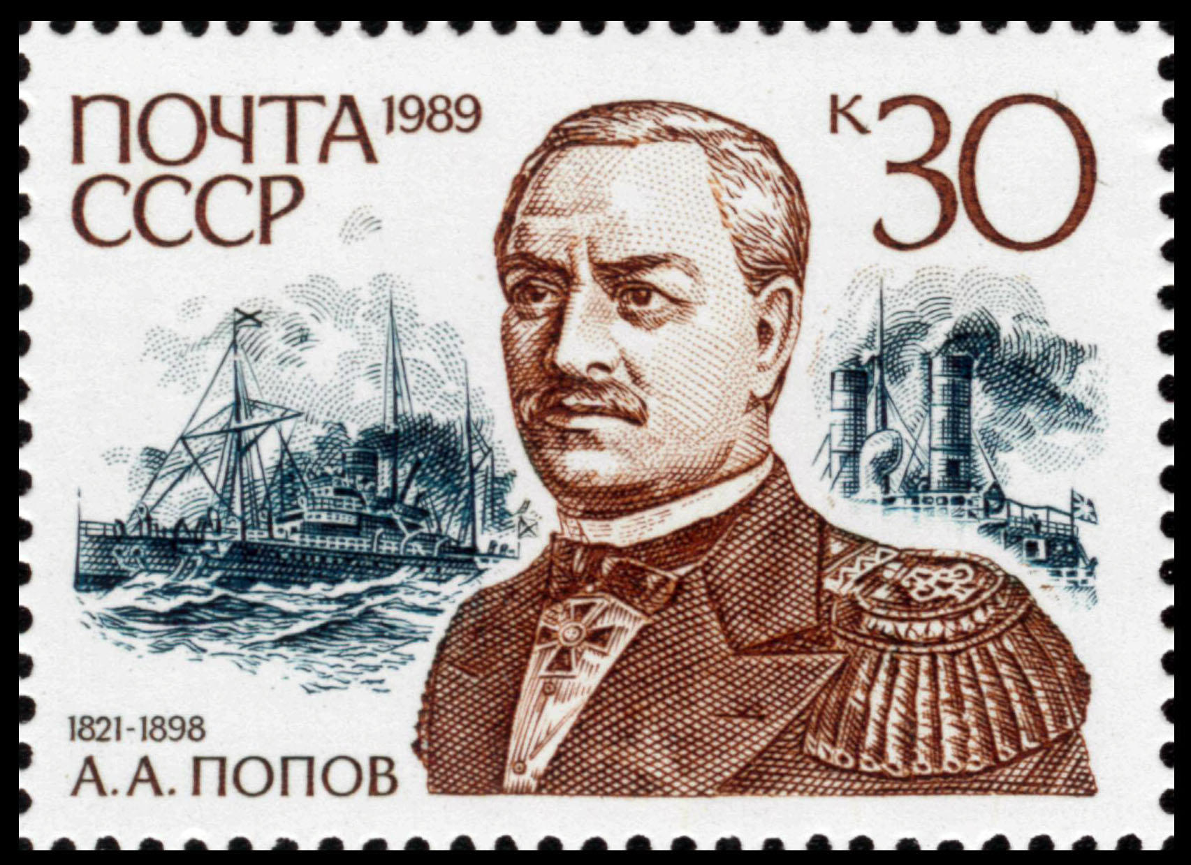 Russian Admirals. Popov. USSR stamp from a stamp sheet of 6 USSR stamps, Russian Admirals, 1989.